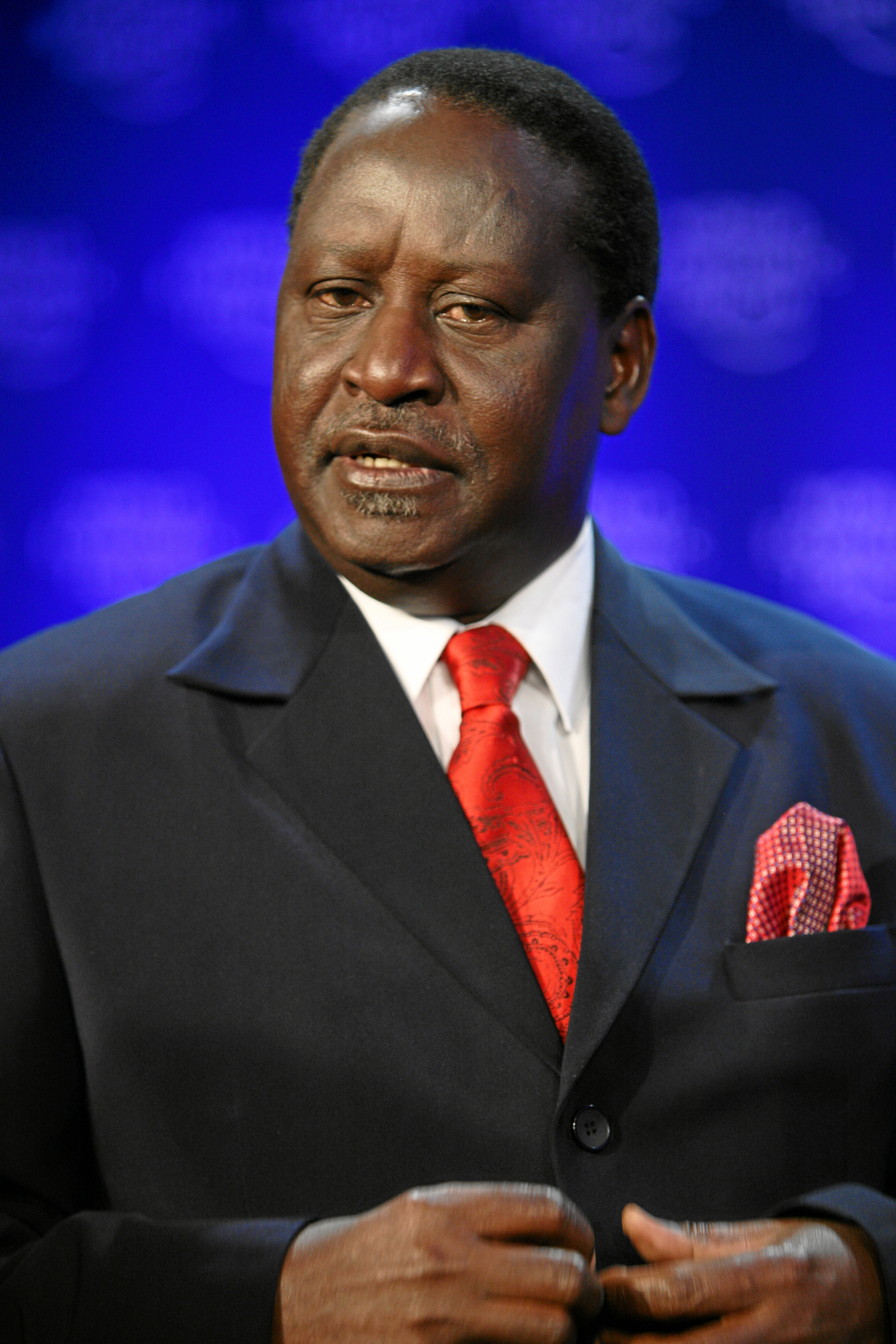 DAVOS-KLOSTERS/SWITZERLAND, 29JAN09 - Raila Amolo Odinga, Prime Minister of Kenya, captured during the session 'The New US Administration: Can It Meet the Expectations of the World?' at the Annual Meeting 2009 of the World Economic Forum in Davos, Switzerland, January 29, 2009.. . Copyright by World Economic Forum.